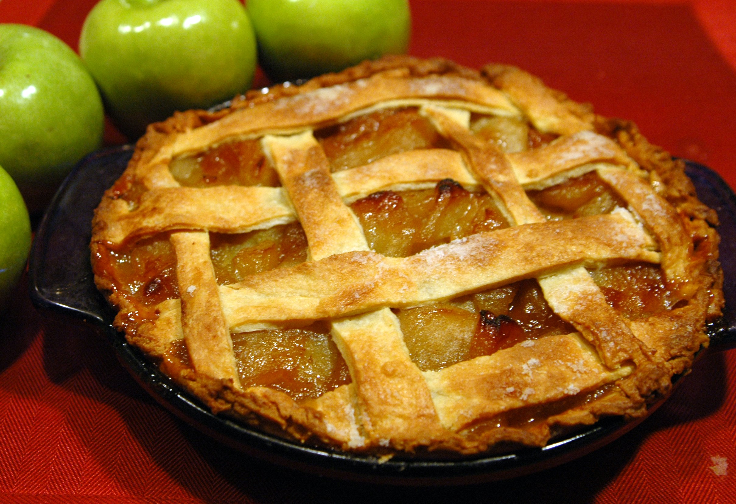 Apple pie